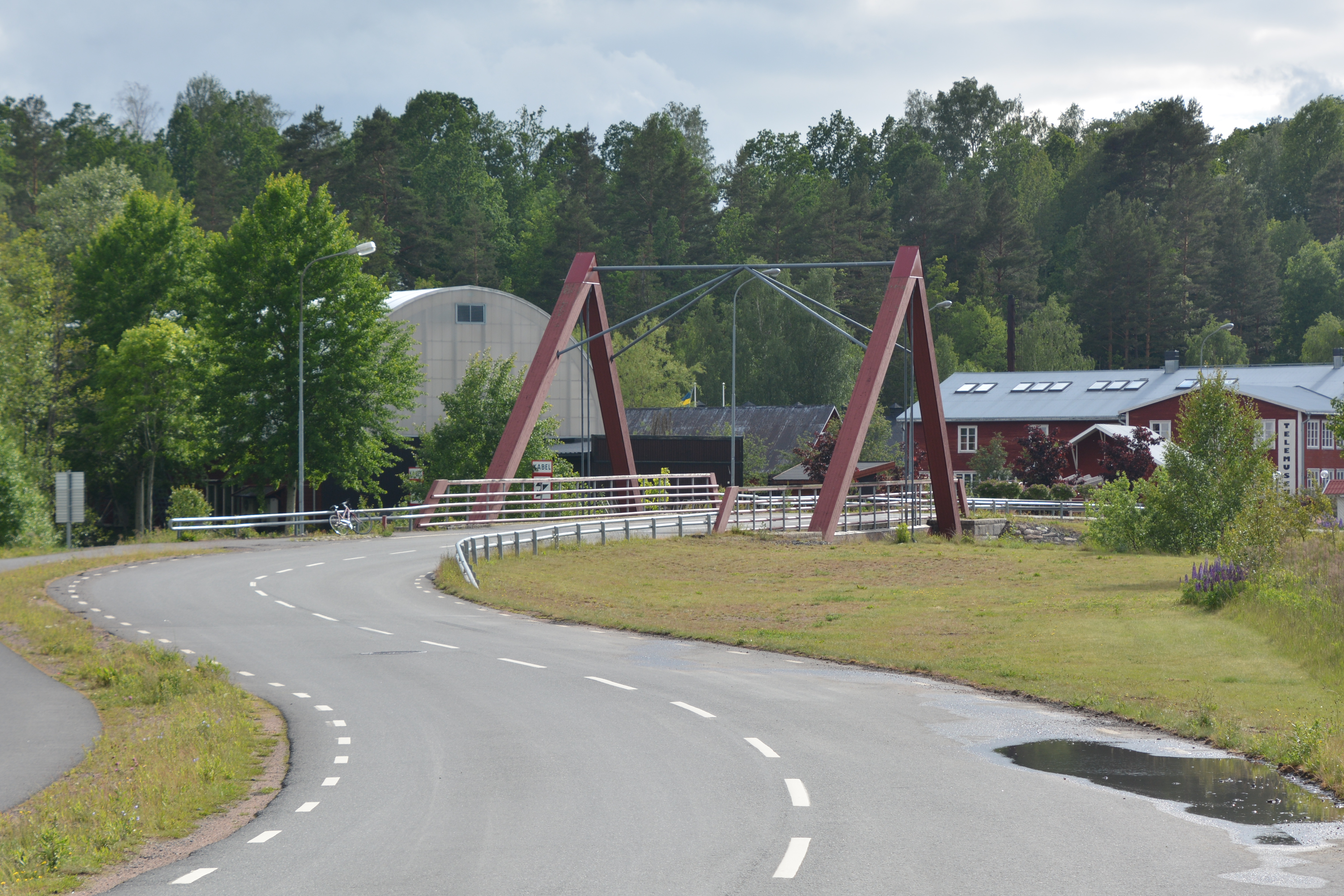 Pythagorasbron i Virserum, över Virserumsån. I bakgrunden Bolagsområdet, med Virserums konsthall till vänster samt Sveriges Telemuseum.